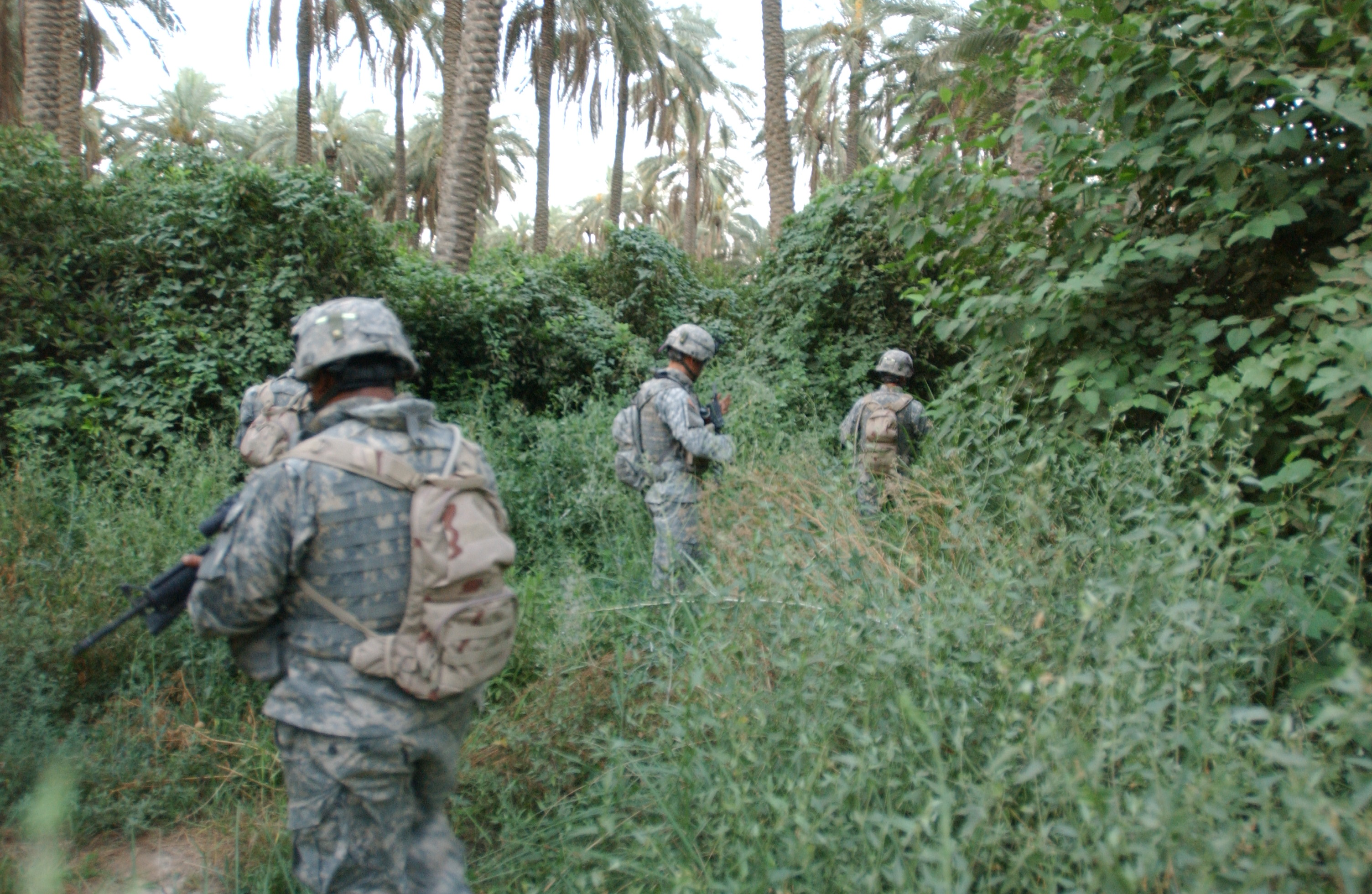 Soldiers from B Company, 2d Battalion, 8th Infantry clearing a palm grove; Arab Jabour, Iraq.